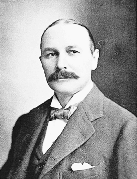 Golf Architect Charles Blair MacDonald